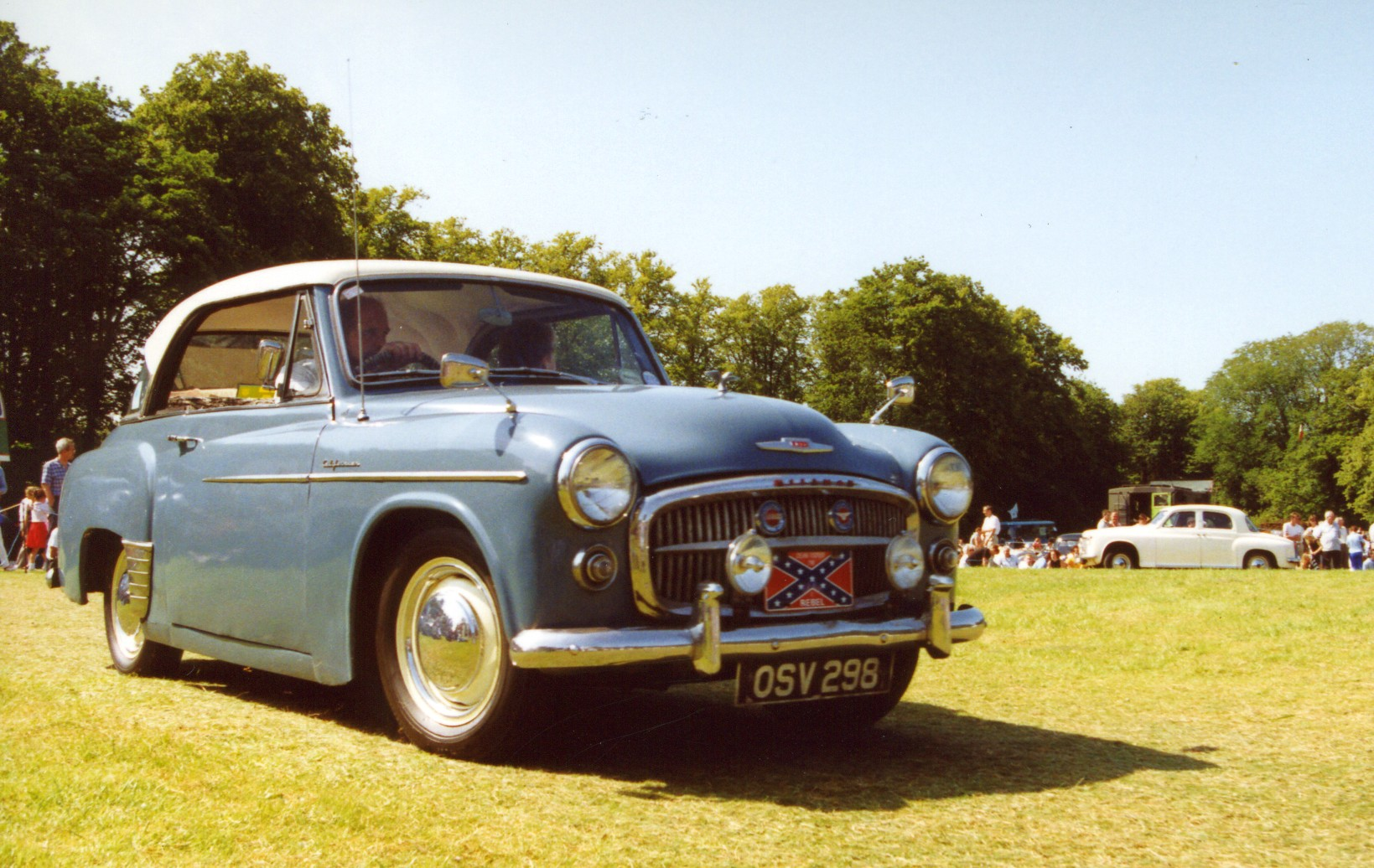 Hillman Minx Californian (The "Californian" model, as opposed to a California-based example!) Pictured Edinburgh.